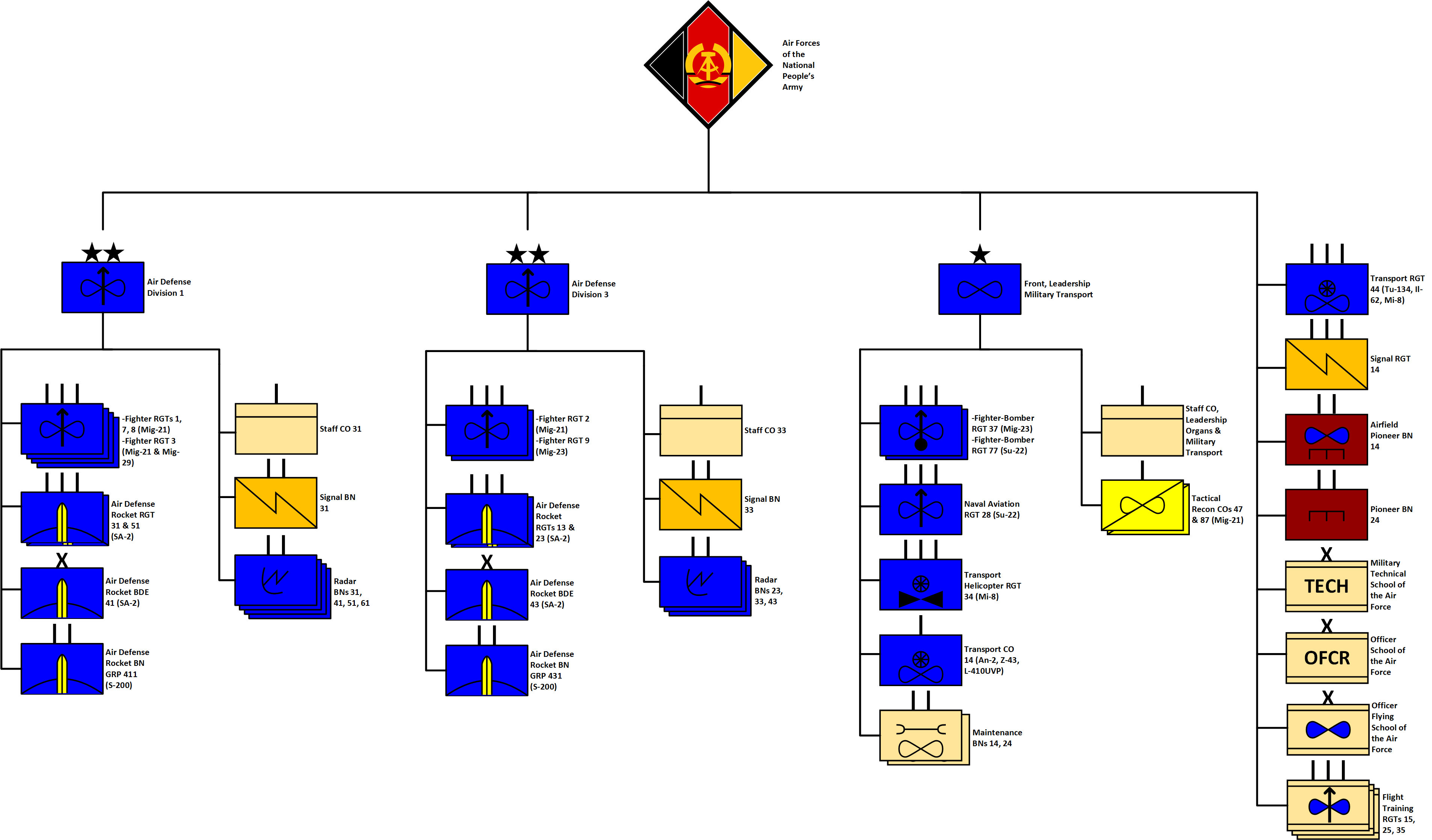 Organization of the East German Air Force circa 1988